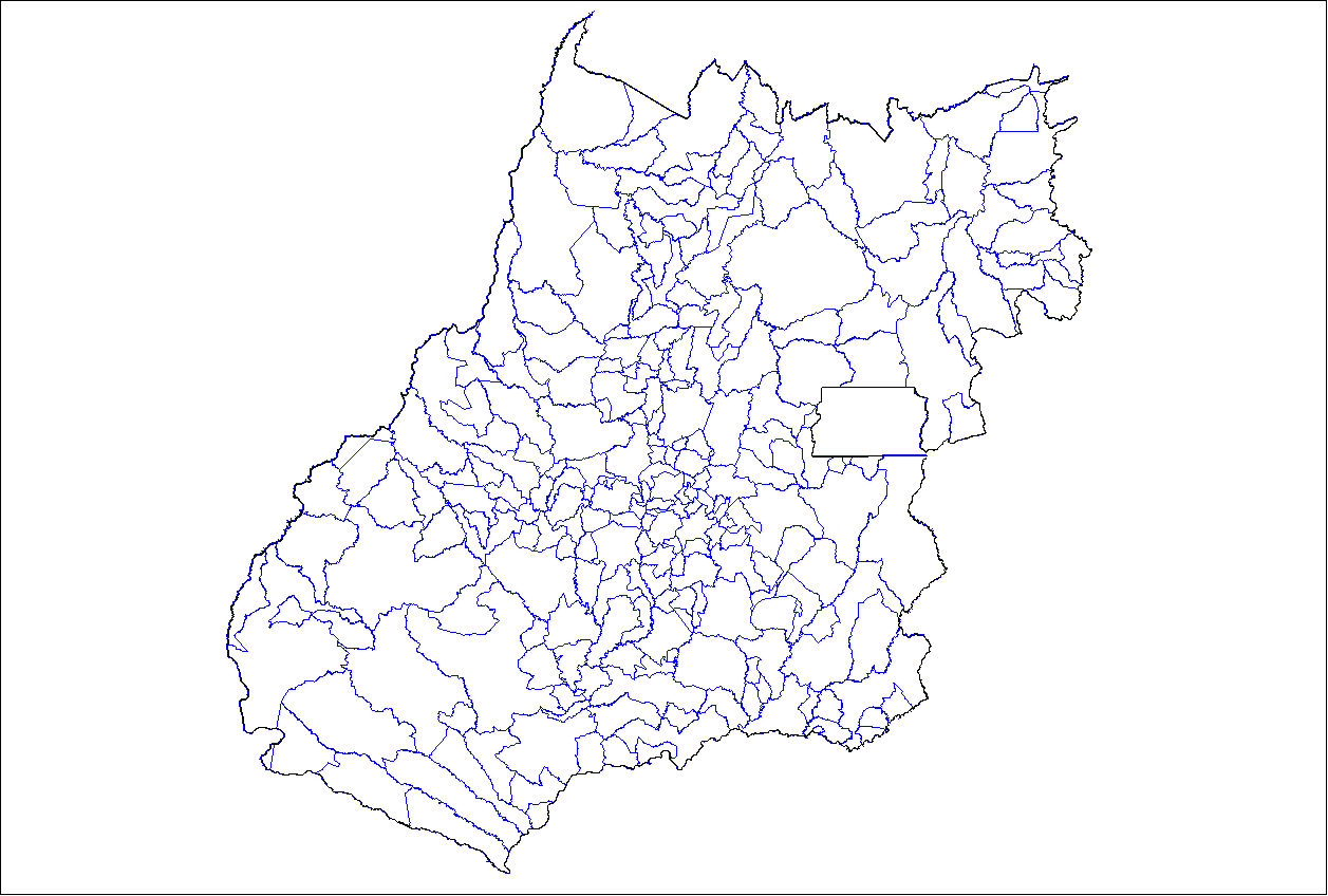 Map of the municipalities of the state of Goias, Brazil. Created by Rarelibra 21:38, 24 August 2006 (UTC) for public domain use. Created using MapInfo Professional v8.5 and various mapping resources.